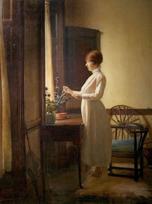 Summer Morning Interior. Supplied by The Public Catalogue Foundation